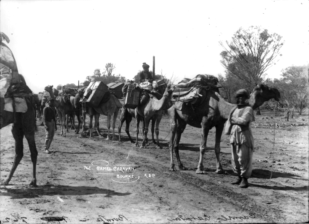 'Rural Life' Pictures from The Powerhouse Museum